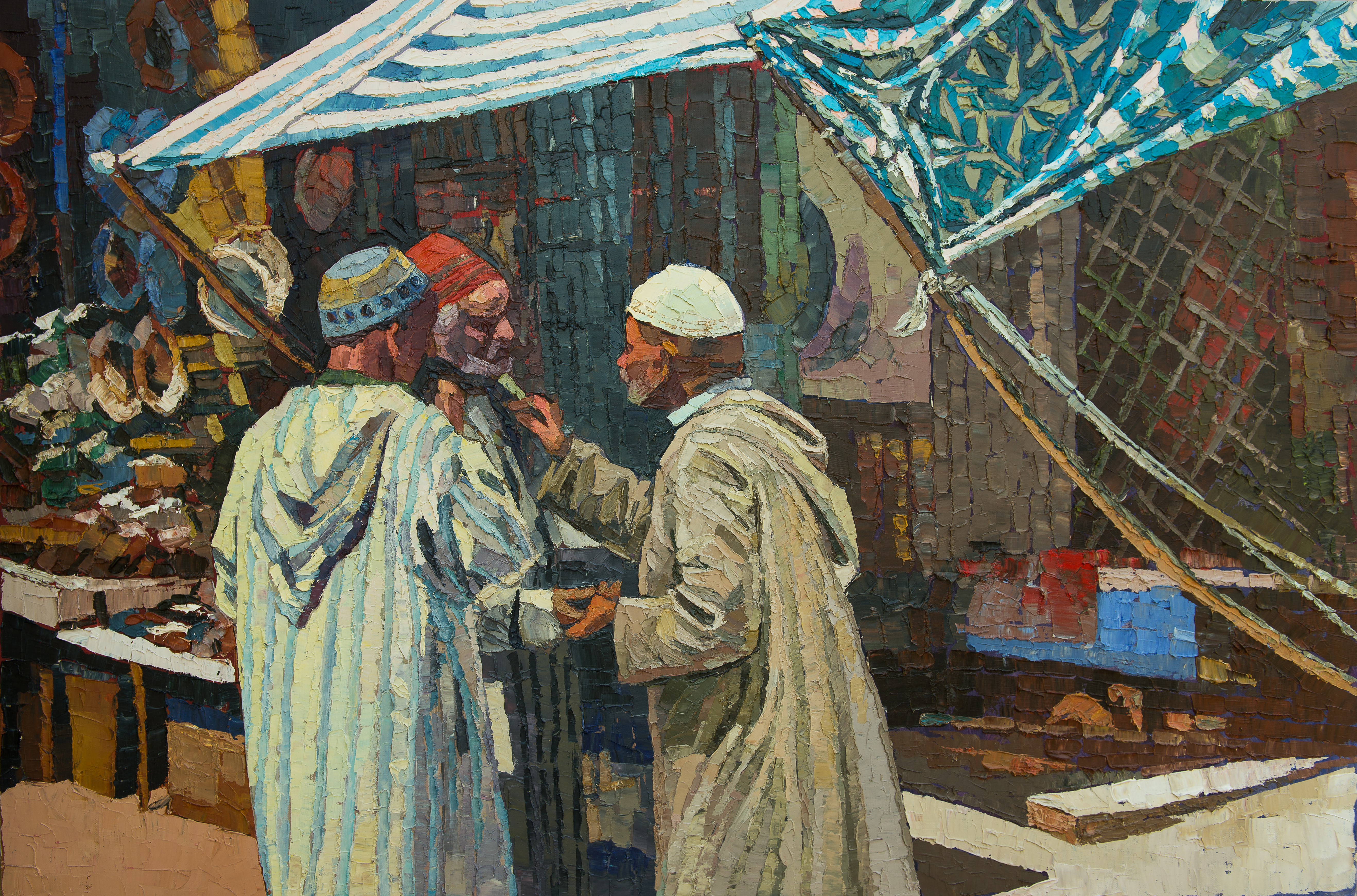 "Sincere conversation" from the cycle "Oriental motives" by Andrei Kulagin 2016